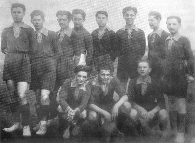 First squad of the Serbian football club FK Obilić (1924).